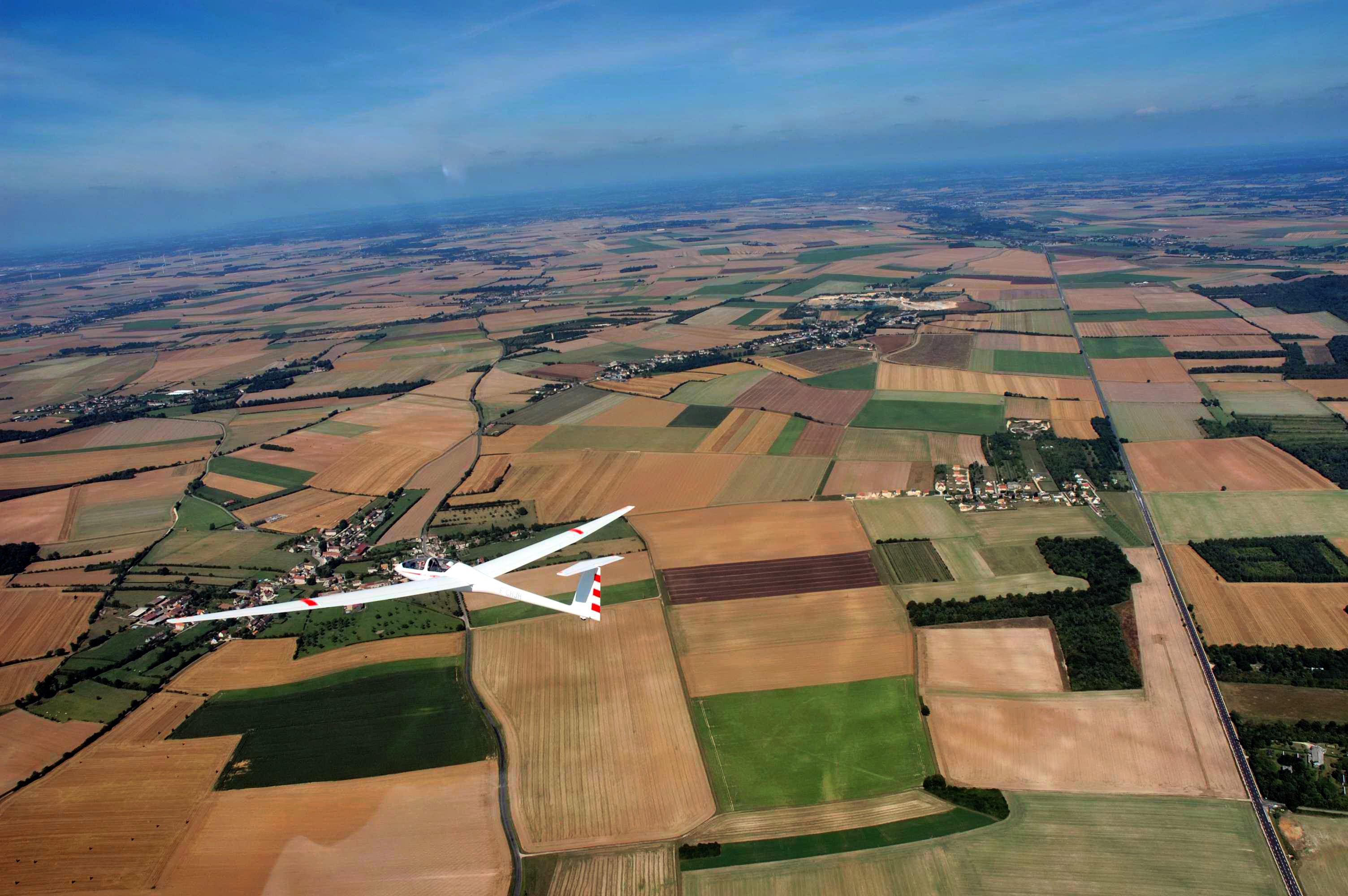 Air-to-air photographs of a Glaser-Dirks DG-500 glider over Falaise